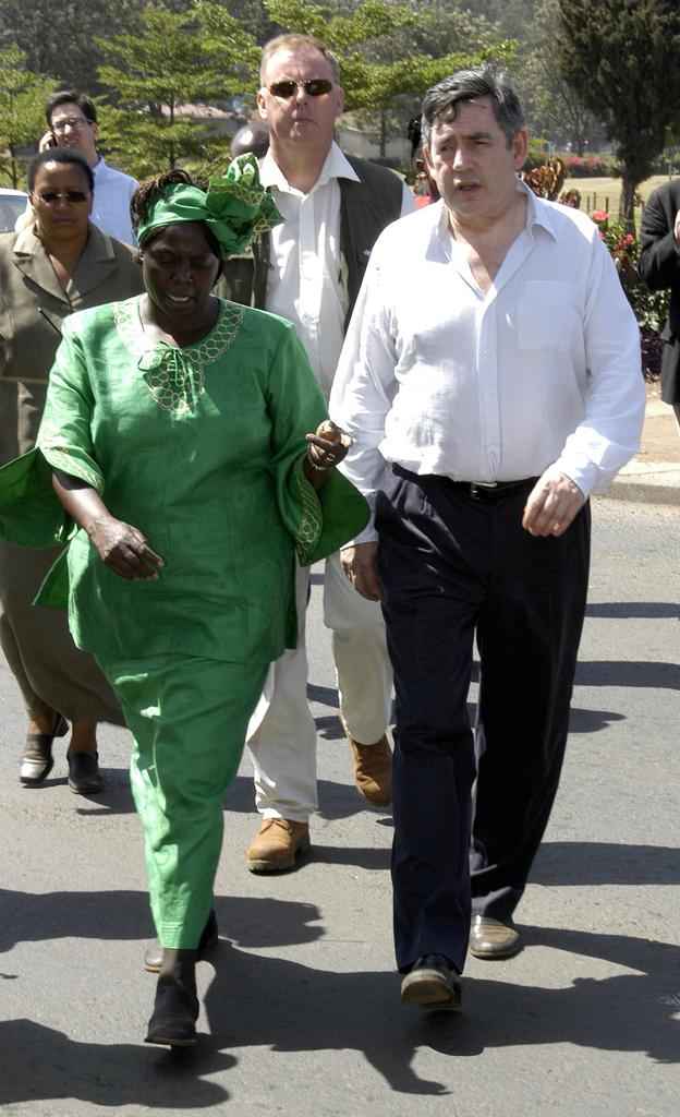 British Chancellor of the Exchequer (later Prime Minister) Gordon Brown walks through the street of Nairobi with Nobel laureate Wangari Maathai after a tour of Olympic Primary school in Kibera's Slum in Nairobi when he was in Kenya in January 2005.